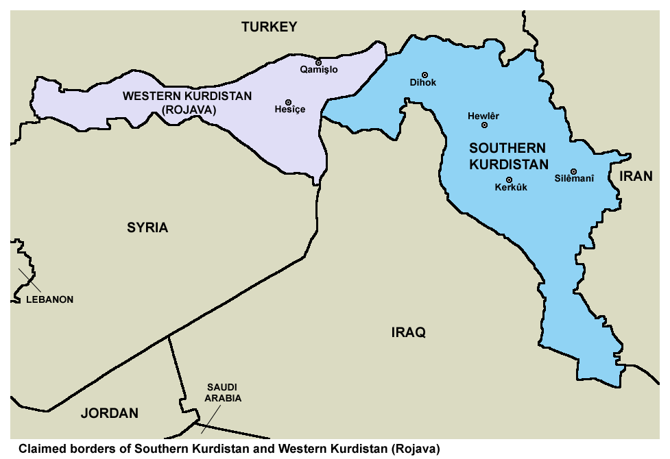 Map showing the claimed borders of Southern Kurdistan and Western Kurdistan (Rojava).